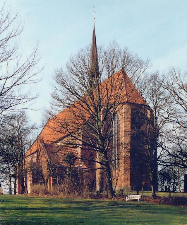 Bordesholm (Germany), monastery-church, photo 2007